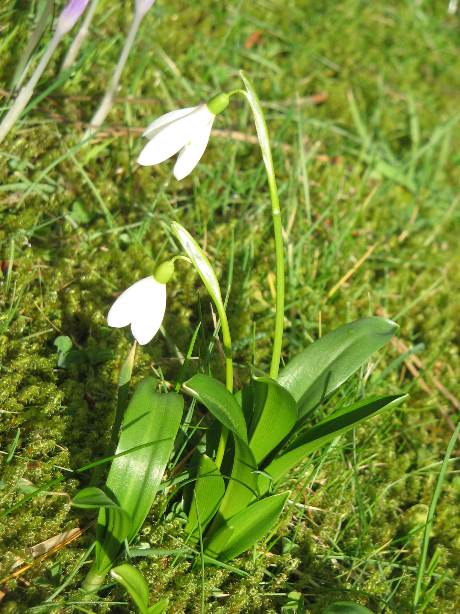 Galanthus woronowii